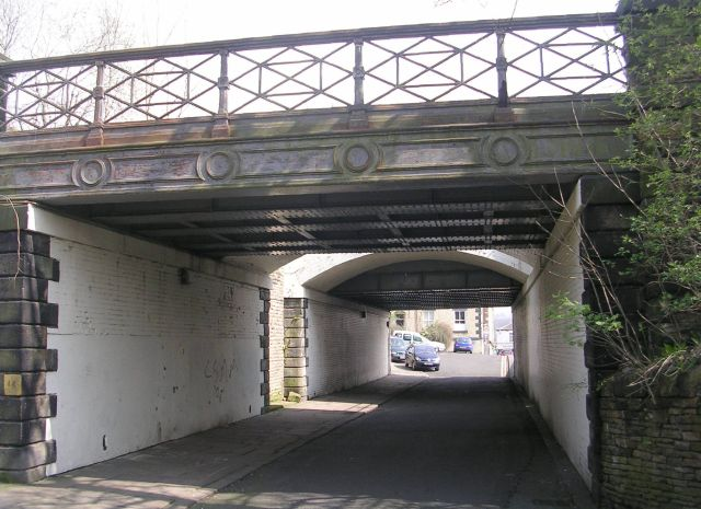 Bridge 12 - Station Approach